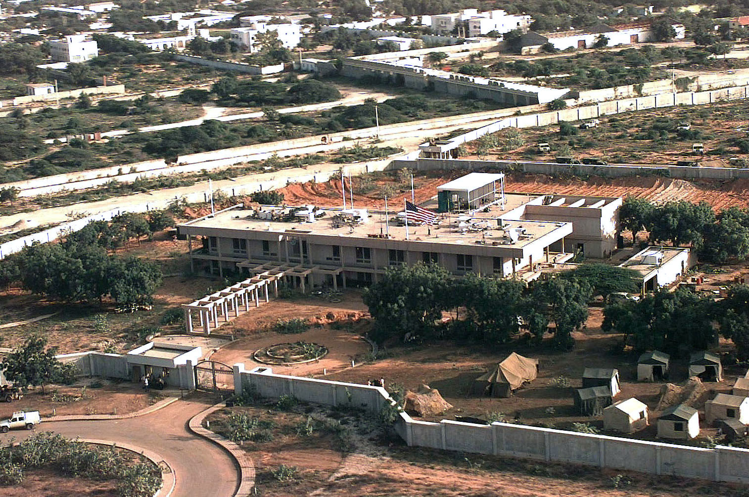 Aerial view of the front of the US Embassy Compound in Mogadishu, Somalia. The Joint Task Force Headquarters for Restore Hope is located there. There are plans to build a tent city on the compound. Some tents are erected on the lower right hand corner of the frame. This mission is in direct support of Operation Restore Hope.